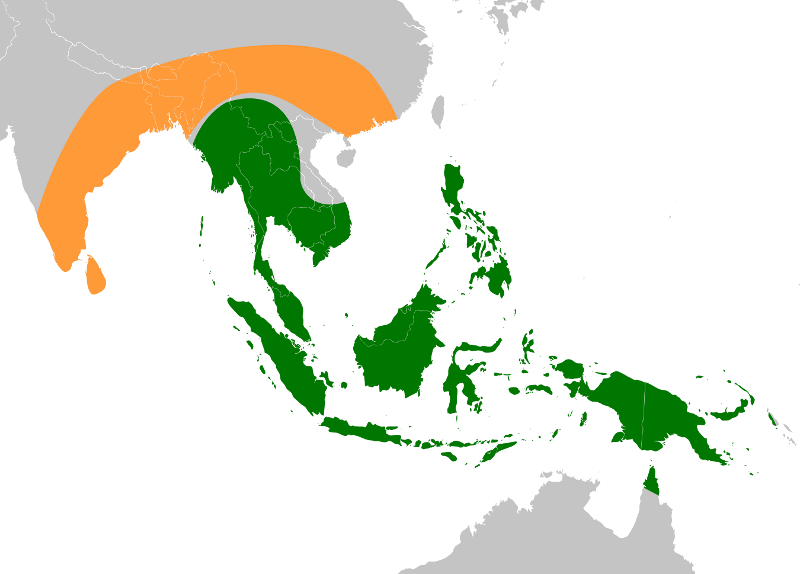 Original native ranges of the two ancestors of edible bananas. M. balbisiana range shown in orange M. acuminata range shown in green